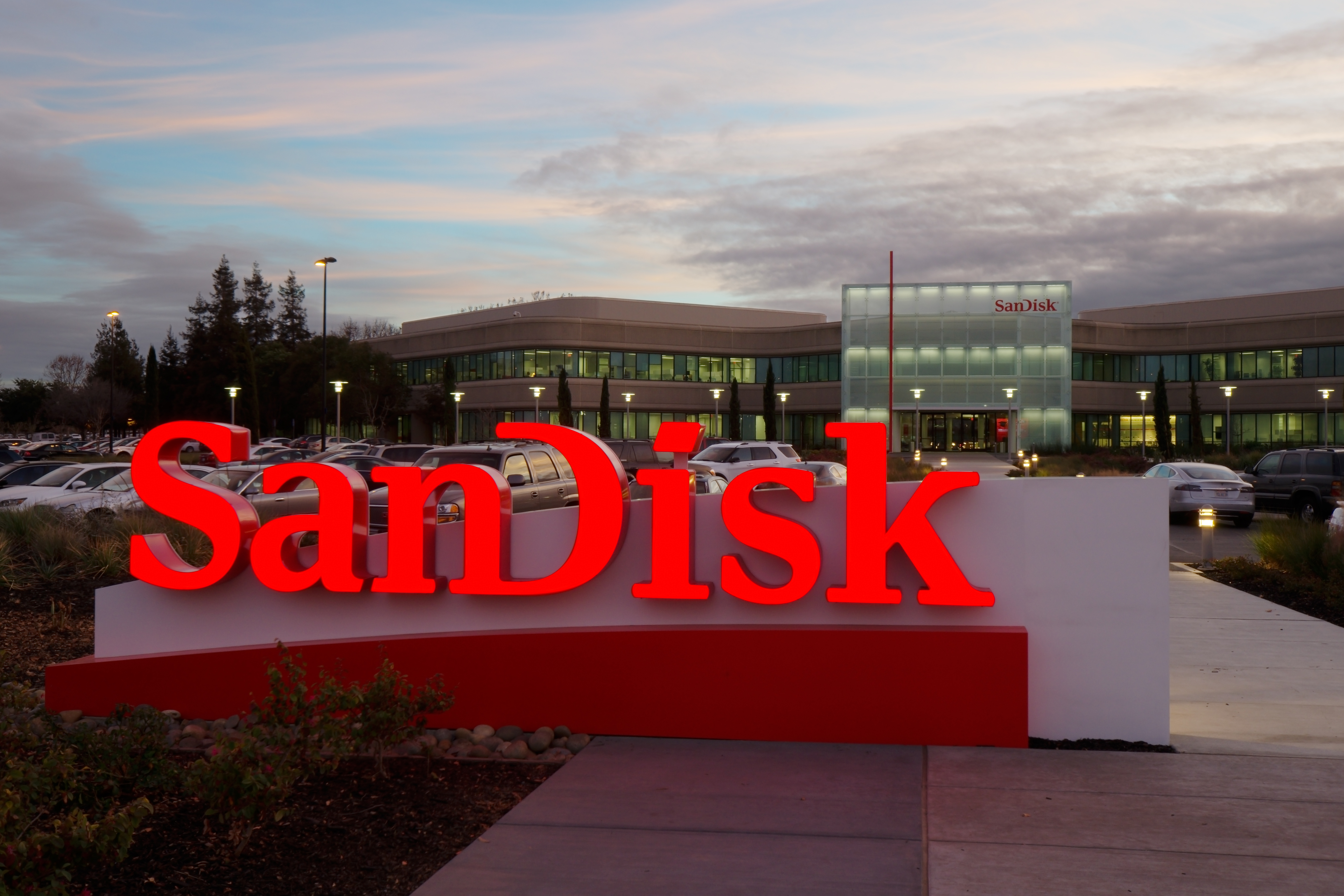 Former SanDisk headquarters in Milpitas, California.